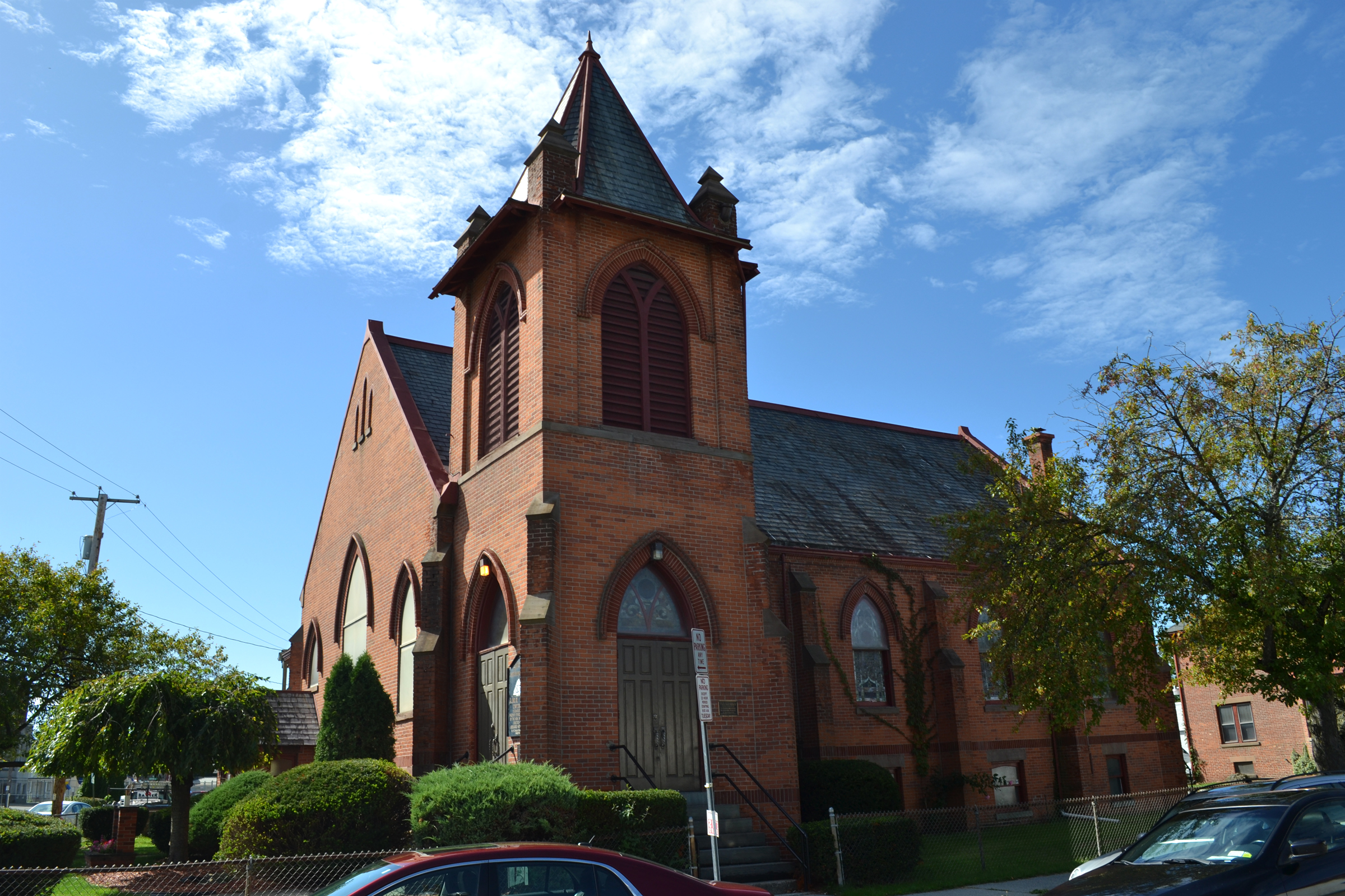 Smith Metropolitan AME Zion Church Smith Metropolitan AME Zion Church, Poughkeepsie, NY. At Junction of Smith and Cottage Streets. Eastern and Northern elevations.